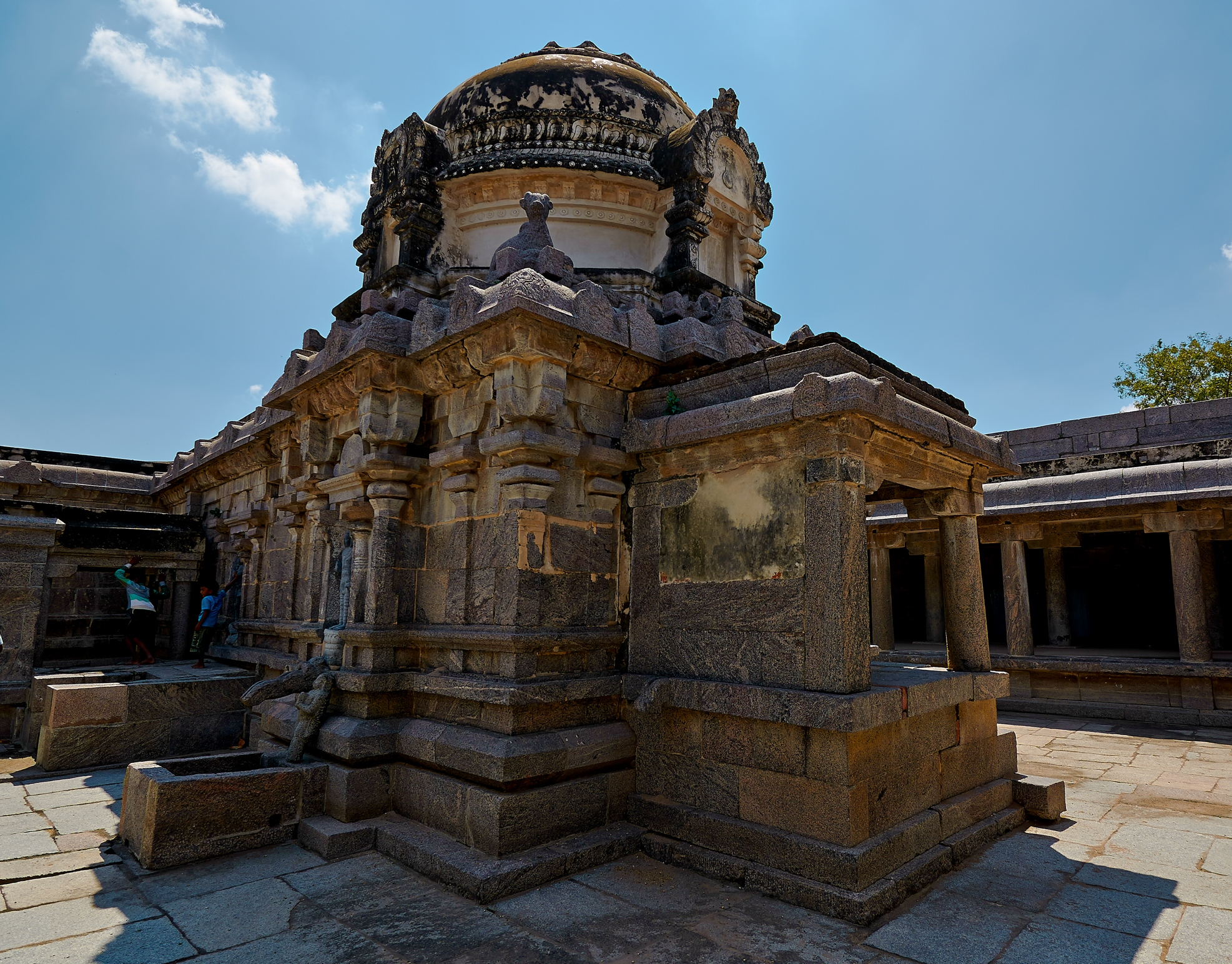 Brahmmapurisvara Temple-Brahmadesam-Villupuram